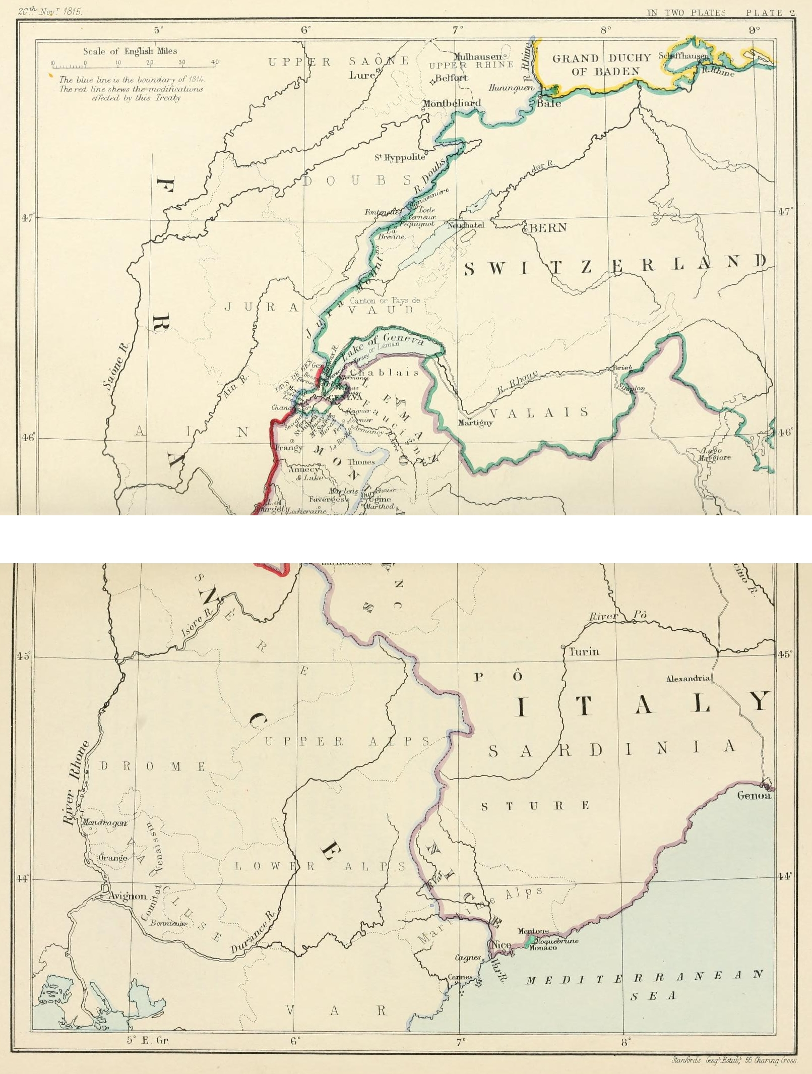 South-east frontier of France after the Treaty of Paris, 1815